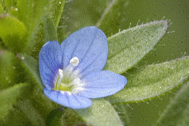 Veronica arvensis from Commanster, Belgian High Ardennes .